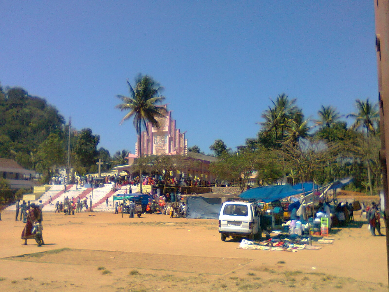 Chemmannar Church